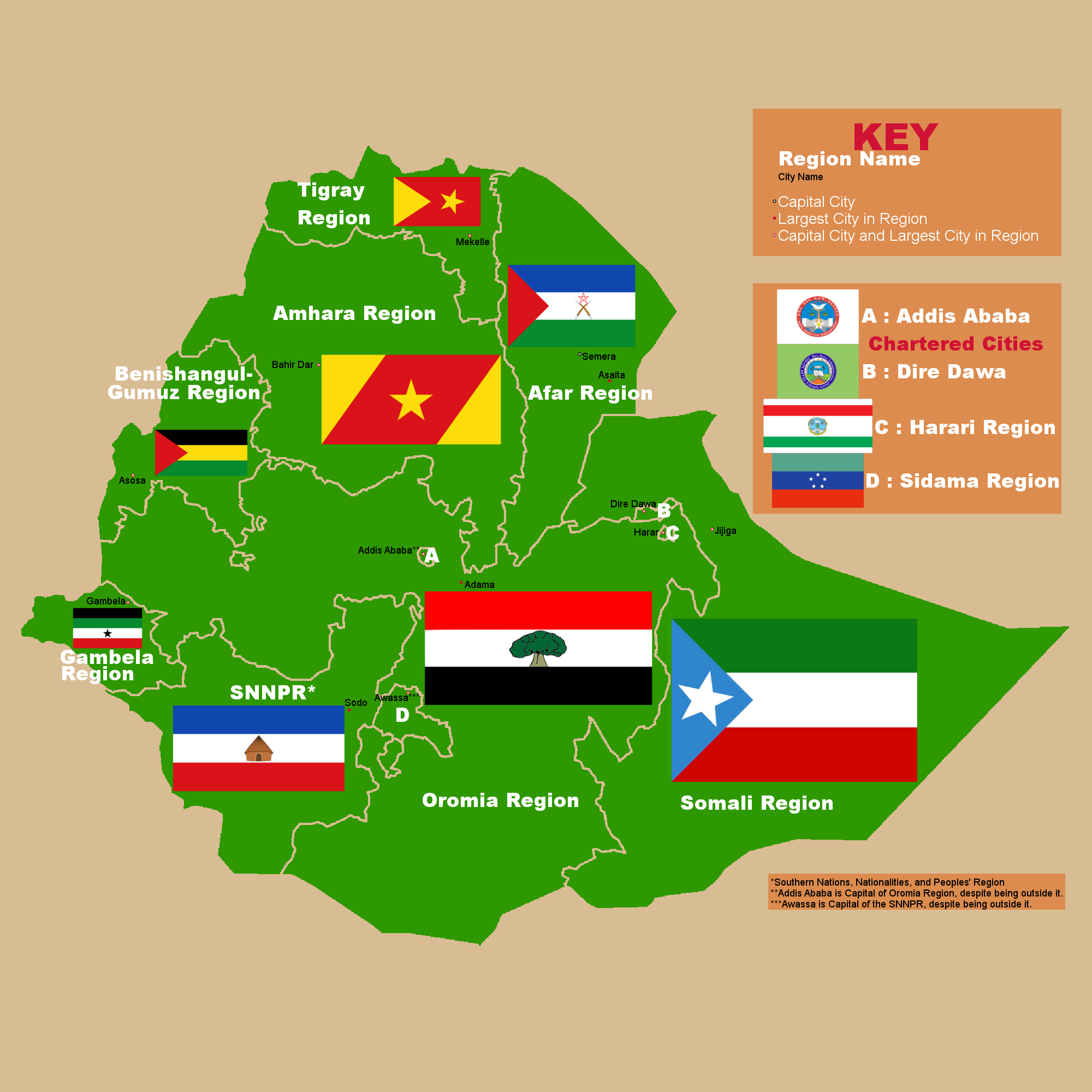 A map of the Ethiopian Regions and Chartered Cities with their flags and with their Regional Capitals and Regional largest city marked. Derived from Using Flags from Commons.